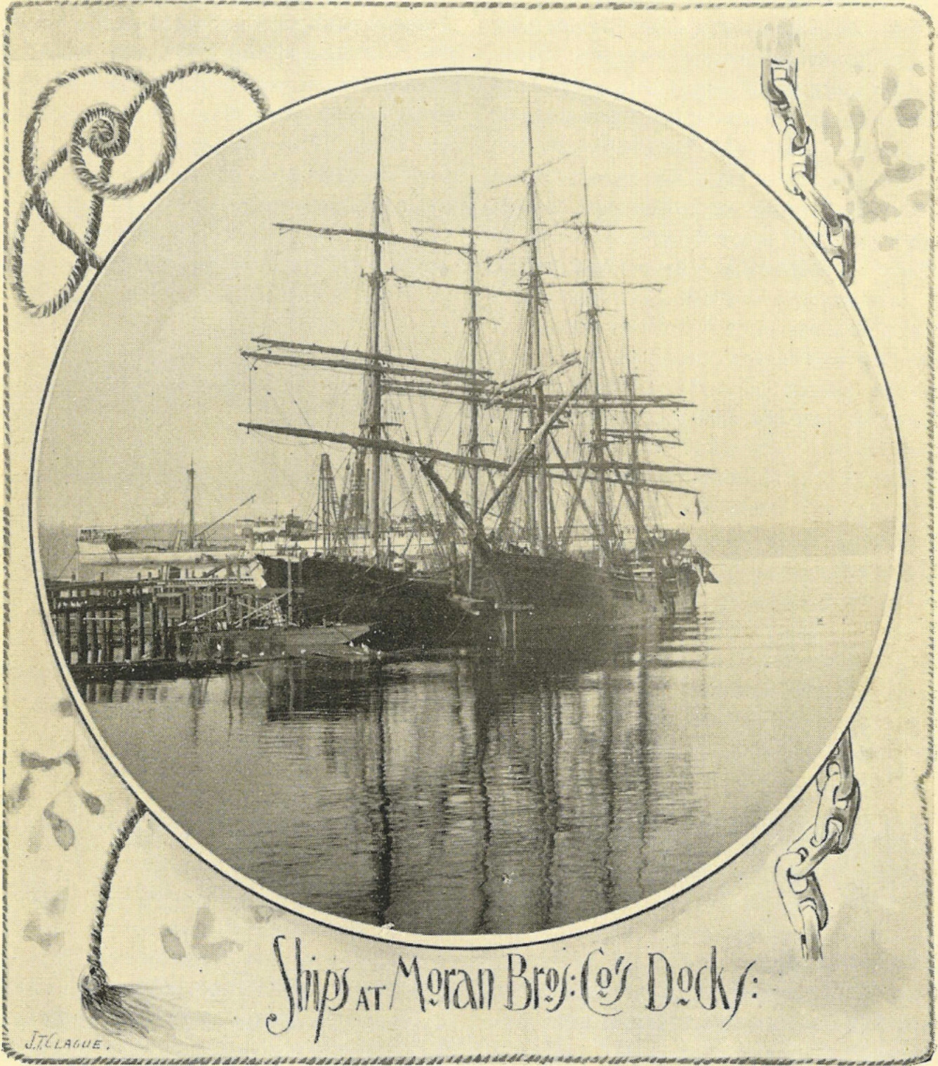 "Ships at Moran Bros. Co's Docks" (showing two tall ships docked at the dock on the Seattle waterfront) from page 48 of brochure Seattle and the Orient (1900); see Robert Moran (shipbuilder).